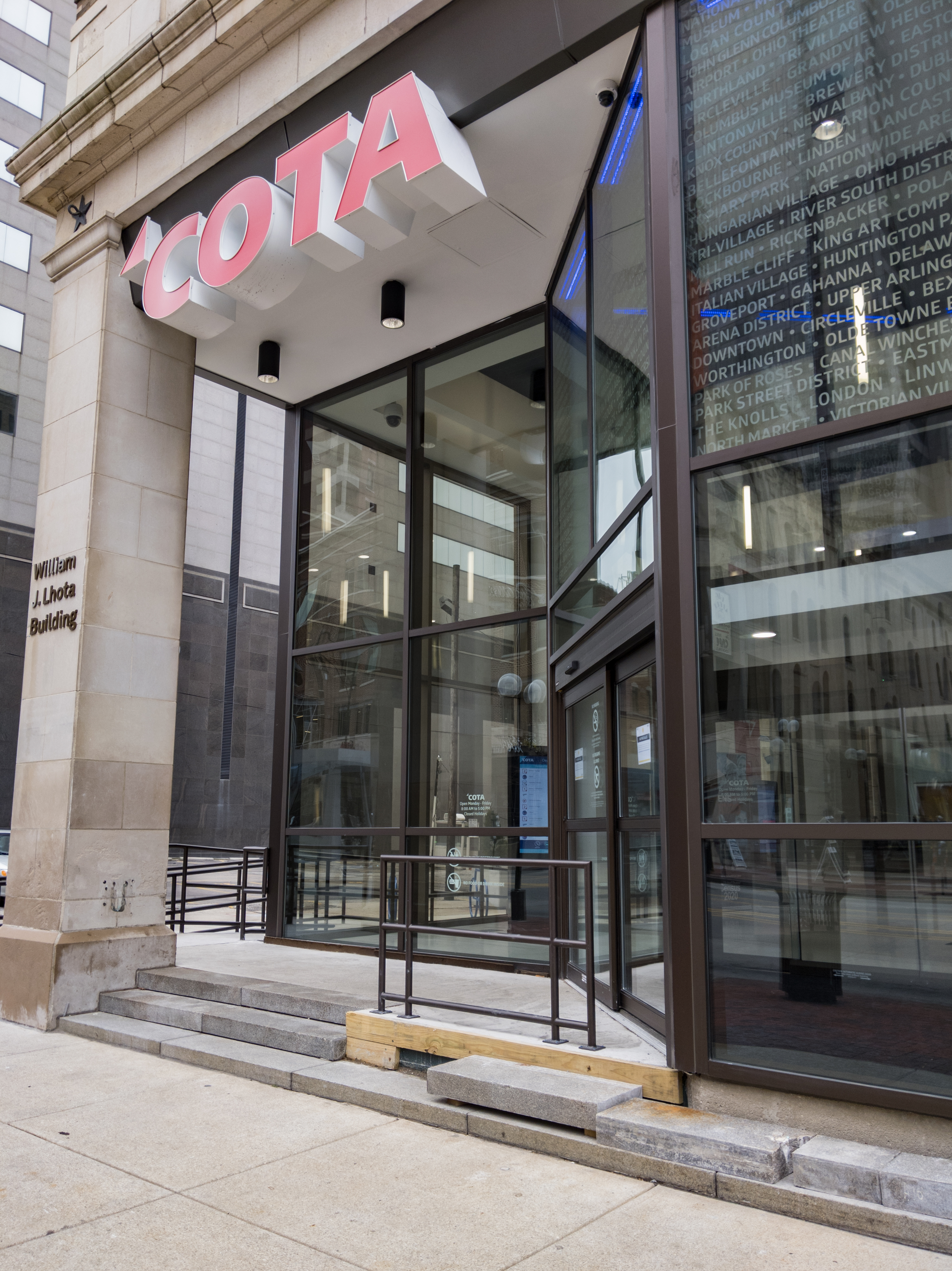 COTA Customer Experience Center at the William J. Lhota Building, 33 N. High St., taken in downtown Columbus, Ohio.